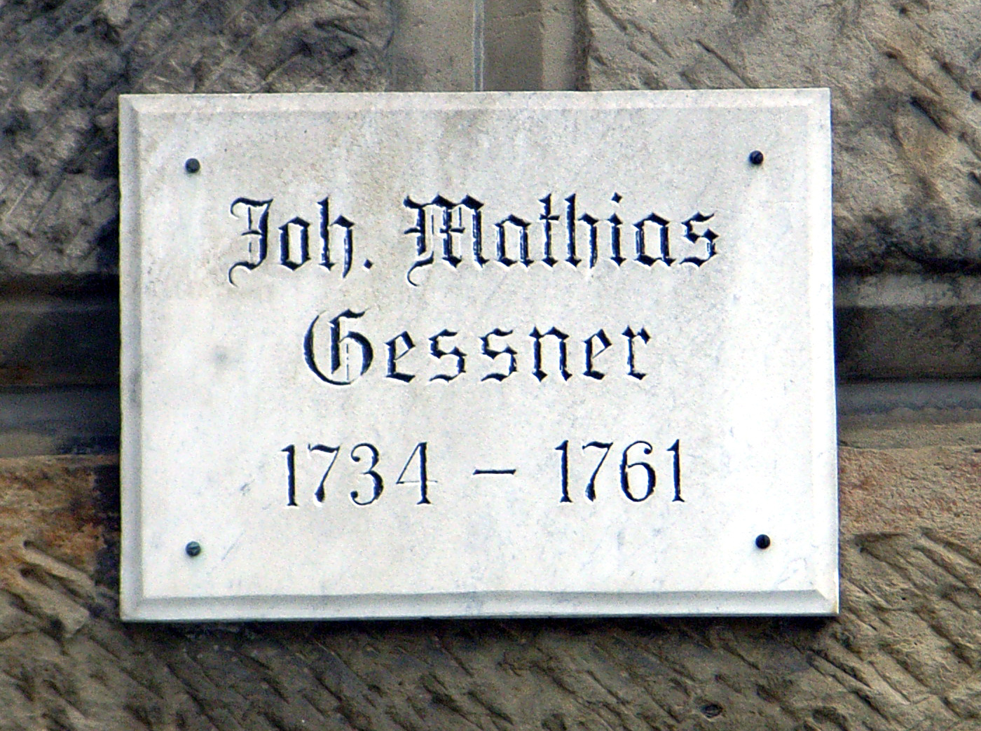 This image shows a informationsign in Göttingen.